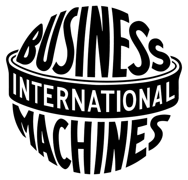 IBM's original logo, used from 1924 to 1946.